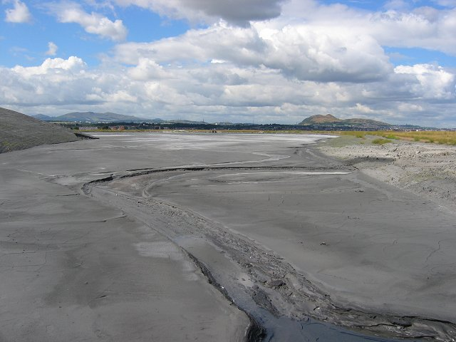 Ash lagoon, Musselburgh.